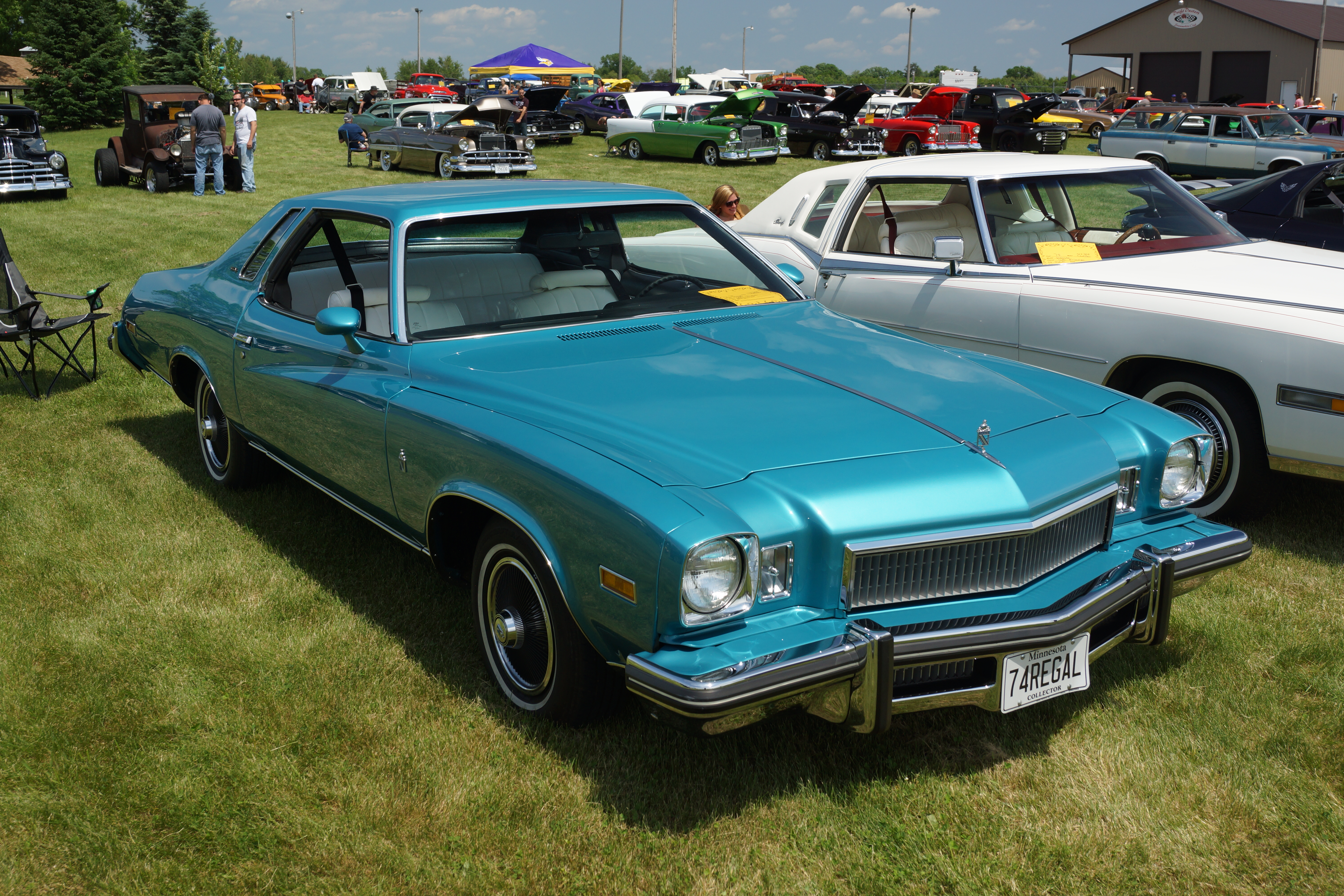 Click here for more car pictures at my Flickr site. North Central Hudson-Essex-Terraplane Club 42nd Annual 2016 Memorial Day Car Show Isanti County Fairgrounds Cambridge, Minnesota